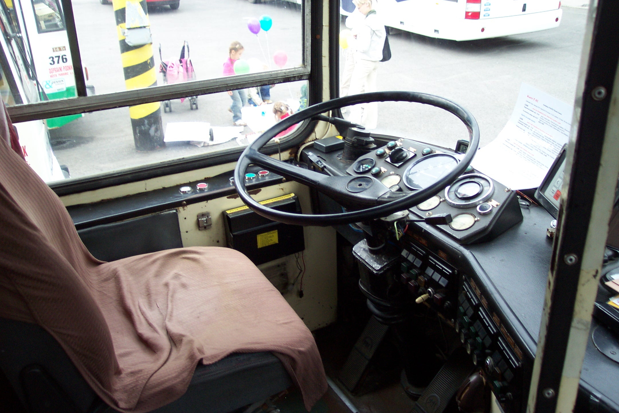 Czech historic trolleybus Škoda Sanos at the 55 years of trolleybus transport in Pardubice (drivers cabin).